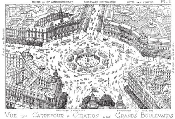 Proposed Carrefour a Giration des Grands Boulevards, or roundabout crossing for major streets, for improving Paris traffic flow